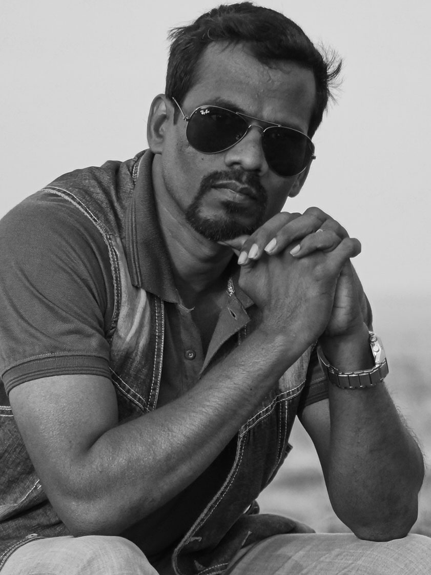 This is taken by my brother with my camera in India